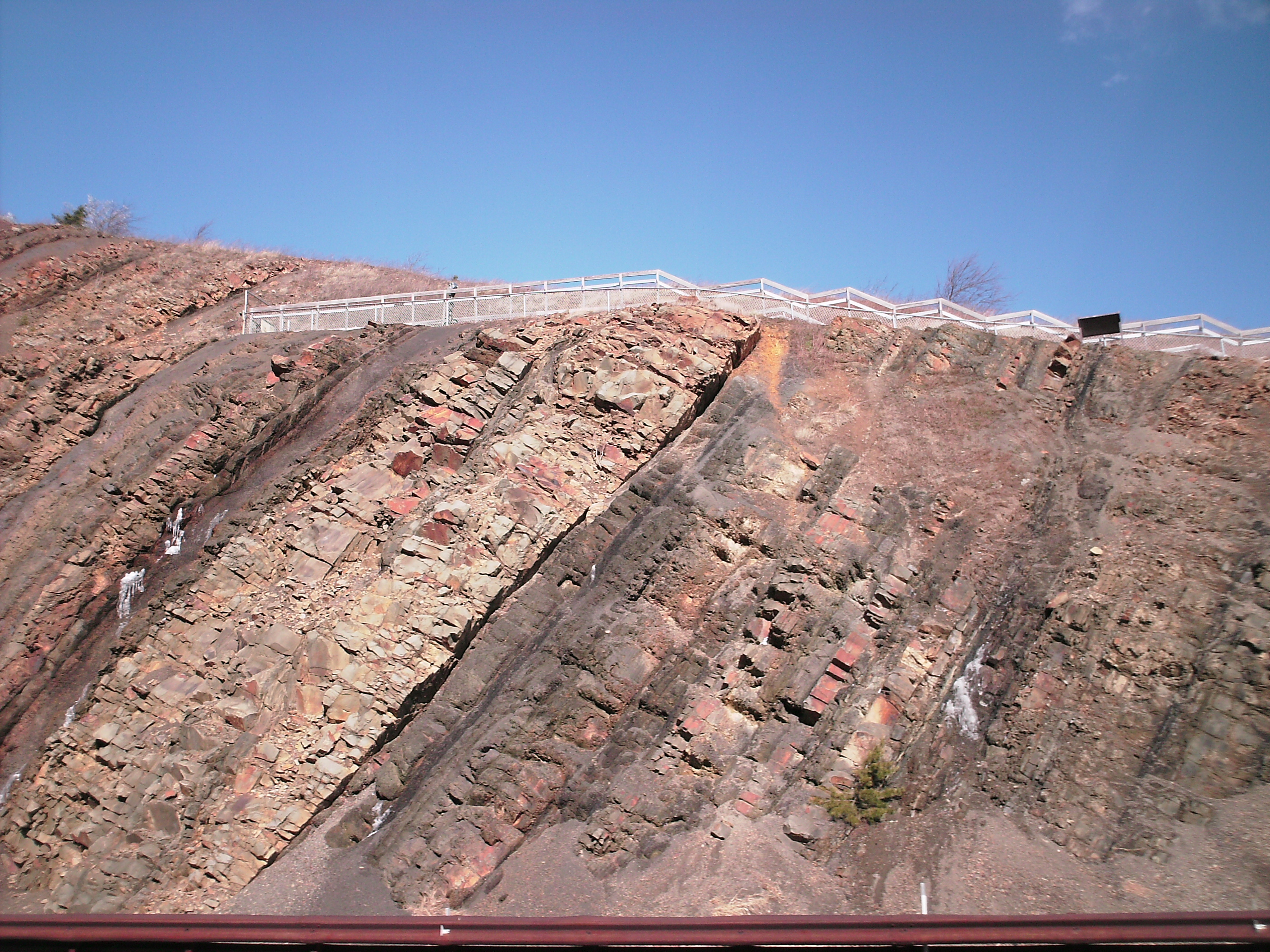 Outcrop of the Rockwell Formation at Sideling Hill, north side of Interstate 68 roadcut. Stratigraphic up to left. Taken December 2008.